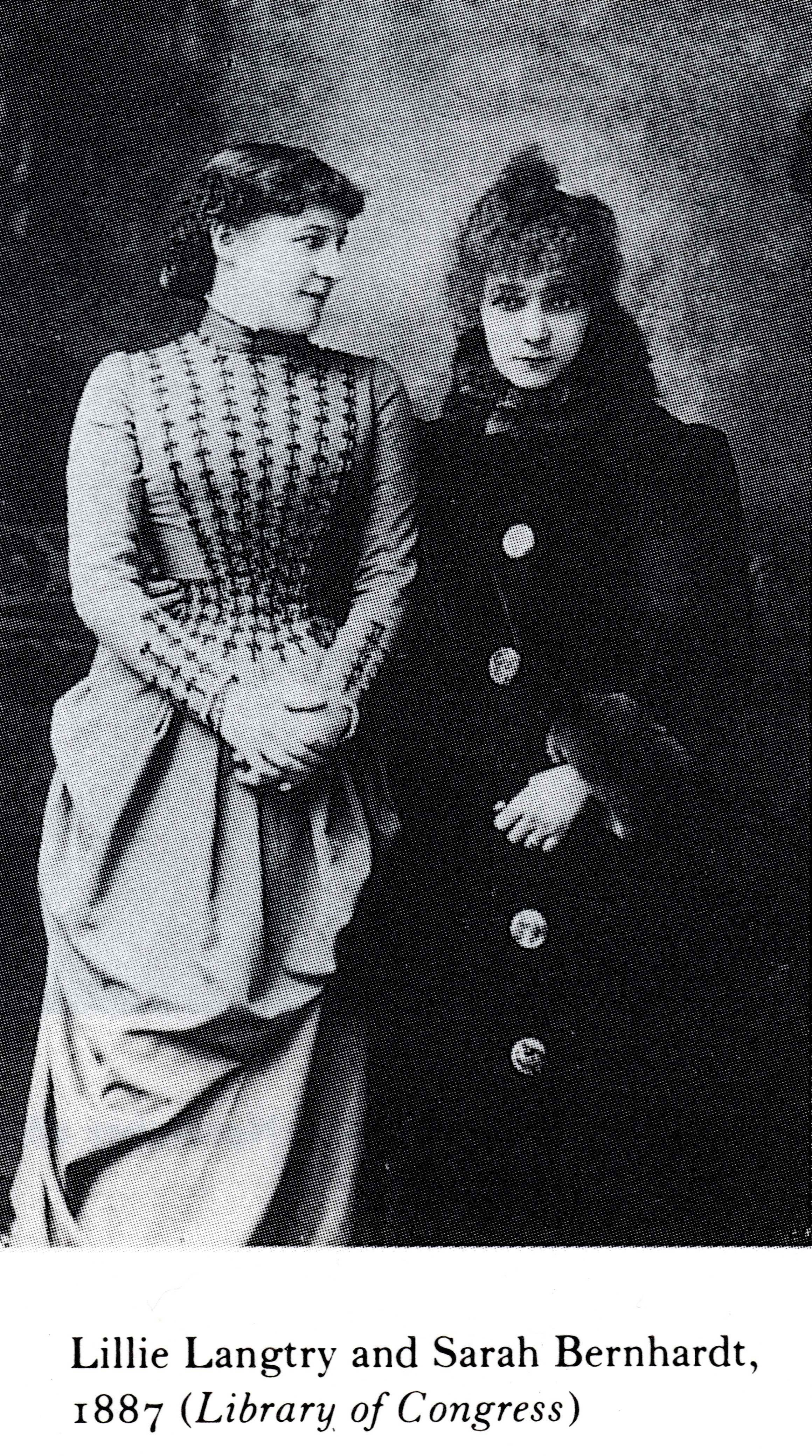 Lillie Langtry and Sarah Bernhardt in 1887